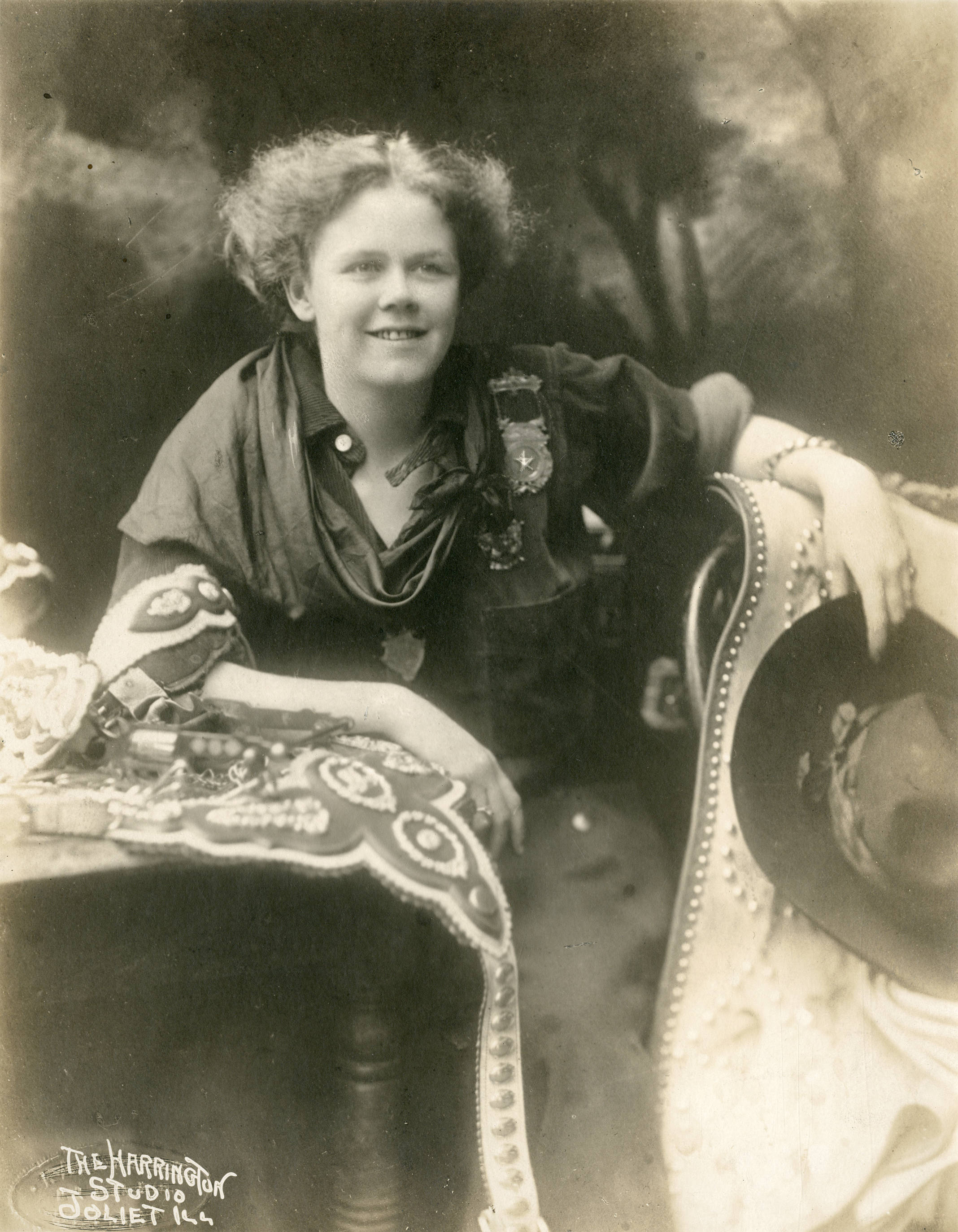 Lucille Mulhall, vaudeville actress Subjects: vaudeville